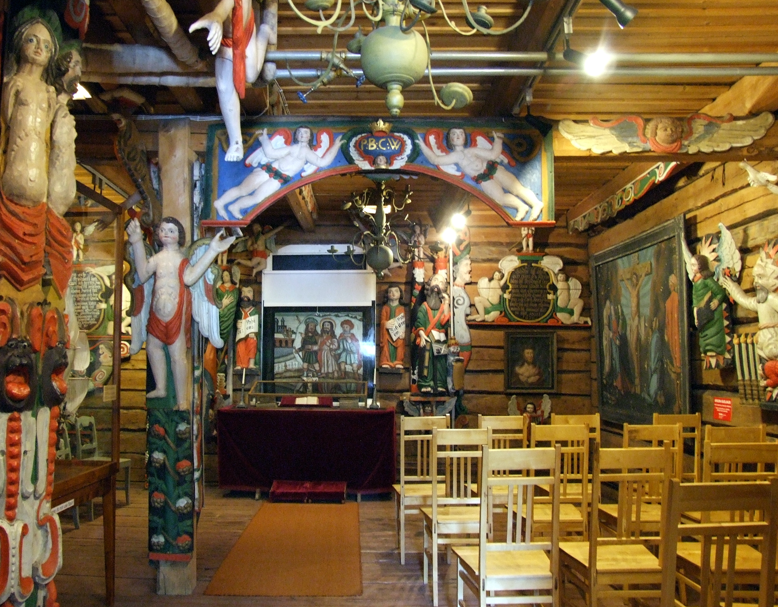 The interior of the old church (burned in a fire 1908) of Raahe has been rebuilt in Raahe museum. The sculptures were stored in a nearby bellfry and thus were saved from the fire. Sculptures were made by Mikael Balt (died 1676)